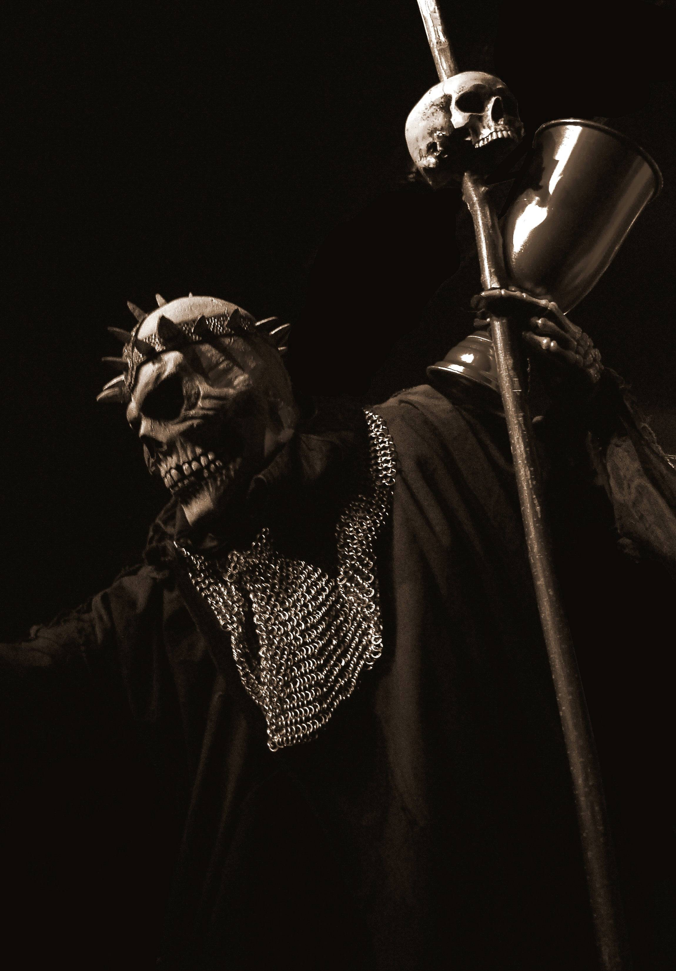 Dr Skull